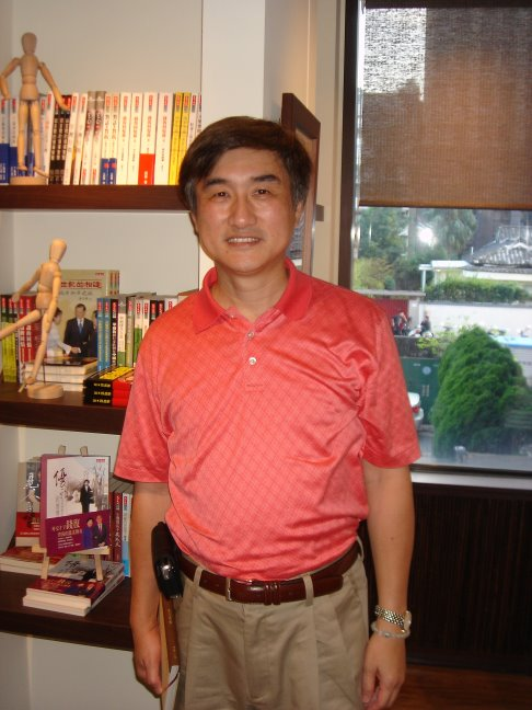 Lewis Liaw, the co-founder and the former president of Ulead Systems.